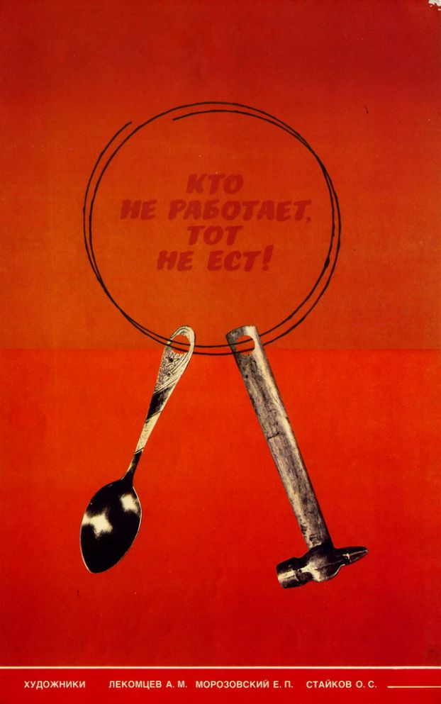 Soviet 1920s constructivist poster: "He who does not work, does not eat!"